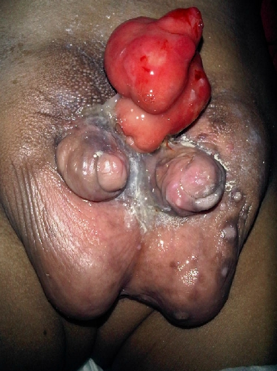 Complete and separate diphallia. Over the region of the pubis, a bowel loop-like structure was seen.